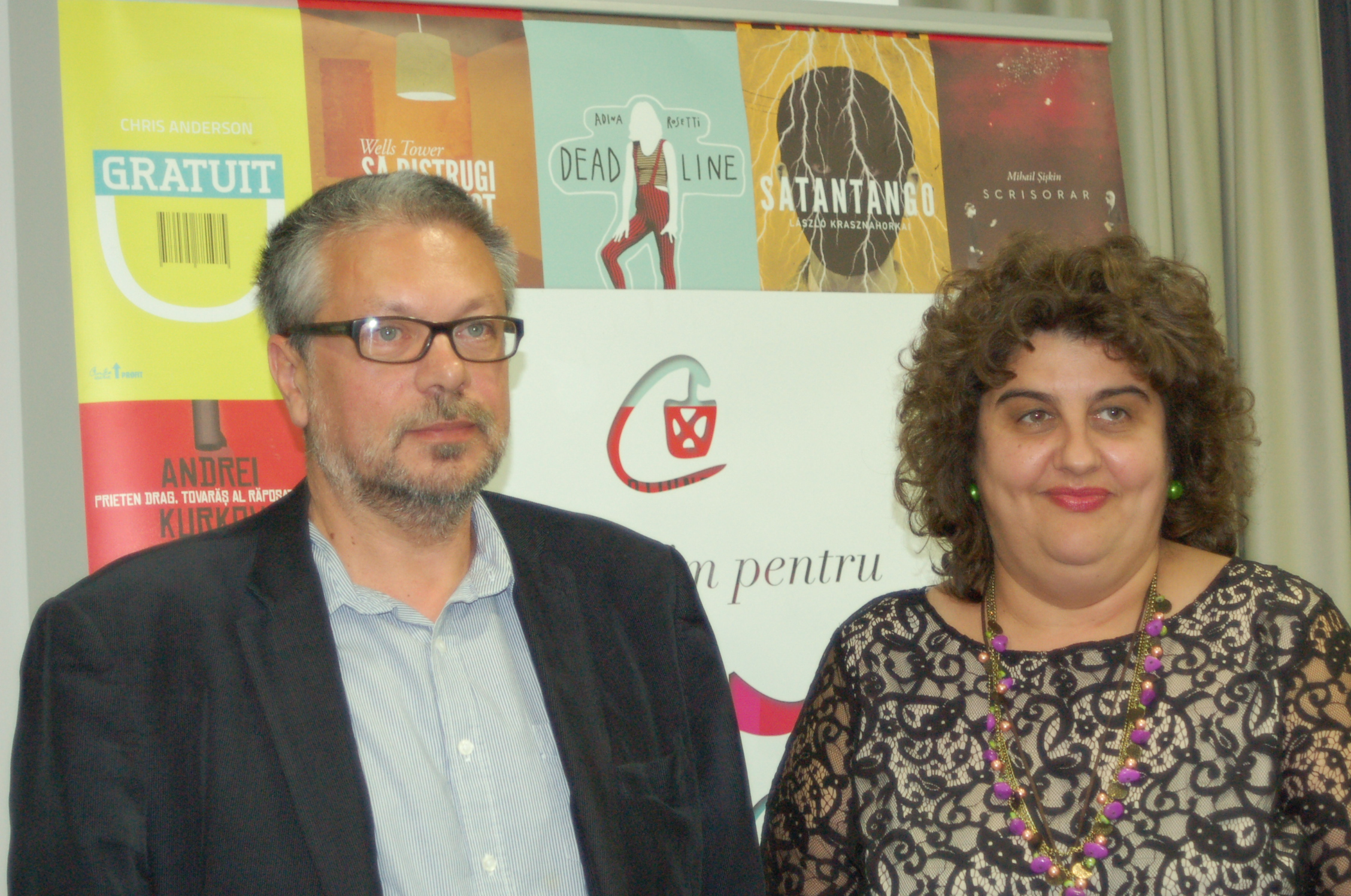 București, 2013, cu Mihail Șișkin